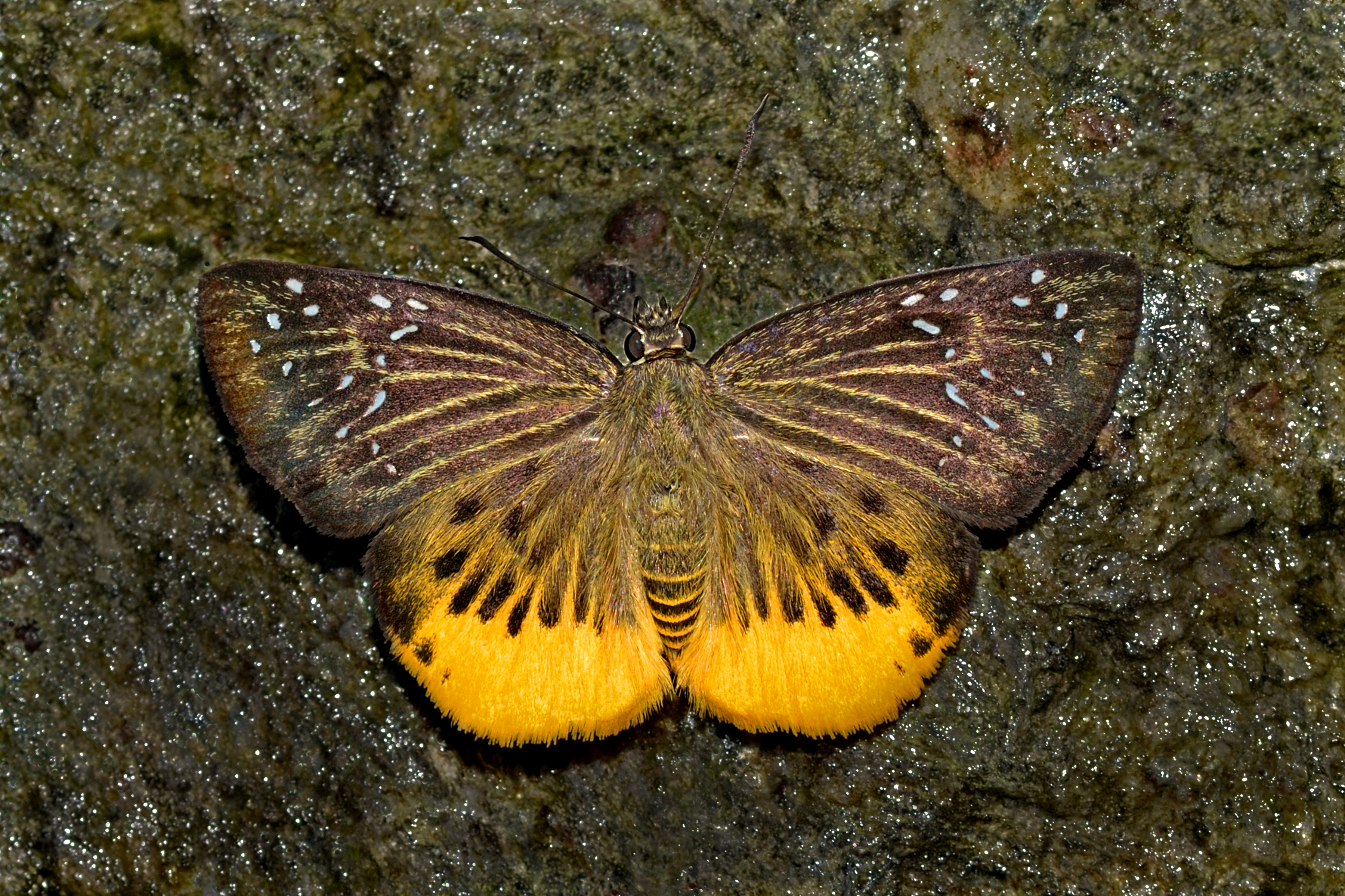 Open wing position mud-puddle of Mooreana trichoneura Felder & Felder, 1860 – Yellow Flat . Specimen belongs to sub-species Mooreana trichoneura pralaya Moore, 1865 – Yellow-veined Flat. অসমীয়া: পাখি মেলা অৱস্থাত mud-puddling কৰি থকা Mooreana trichoneura Felder & Felder, 1860 – Yellow Flat পখিলা ।এই নমুনাটো Mooreana trichoneura pralaya Moore, 1865 – Yellow-veined Flat উপ-প্ৰজাতিৰ অন্তৰ্গত ।